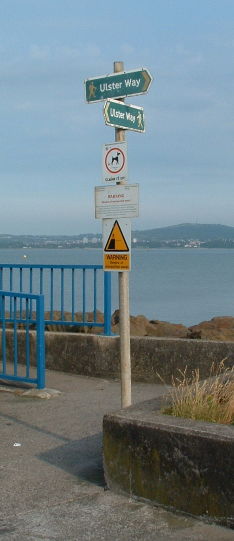 Ulster Way Signpost, Holywood. On the shore of Belfast Lough a signpost comprising: directions for the Ulster Way long distance footpath; encouragement for dog owners to clean up after them; a warning about the dangers of eating shellfish from the Lough; and a warning of large, unexpected waves created by the passing high speed ferries.